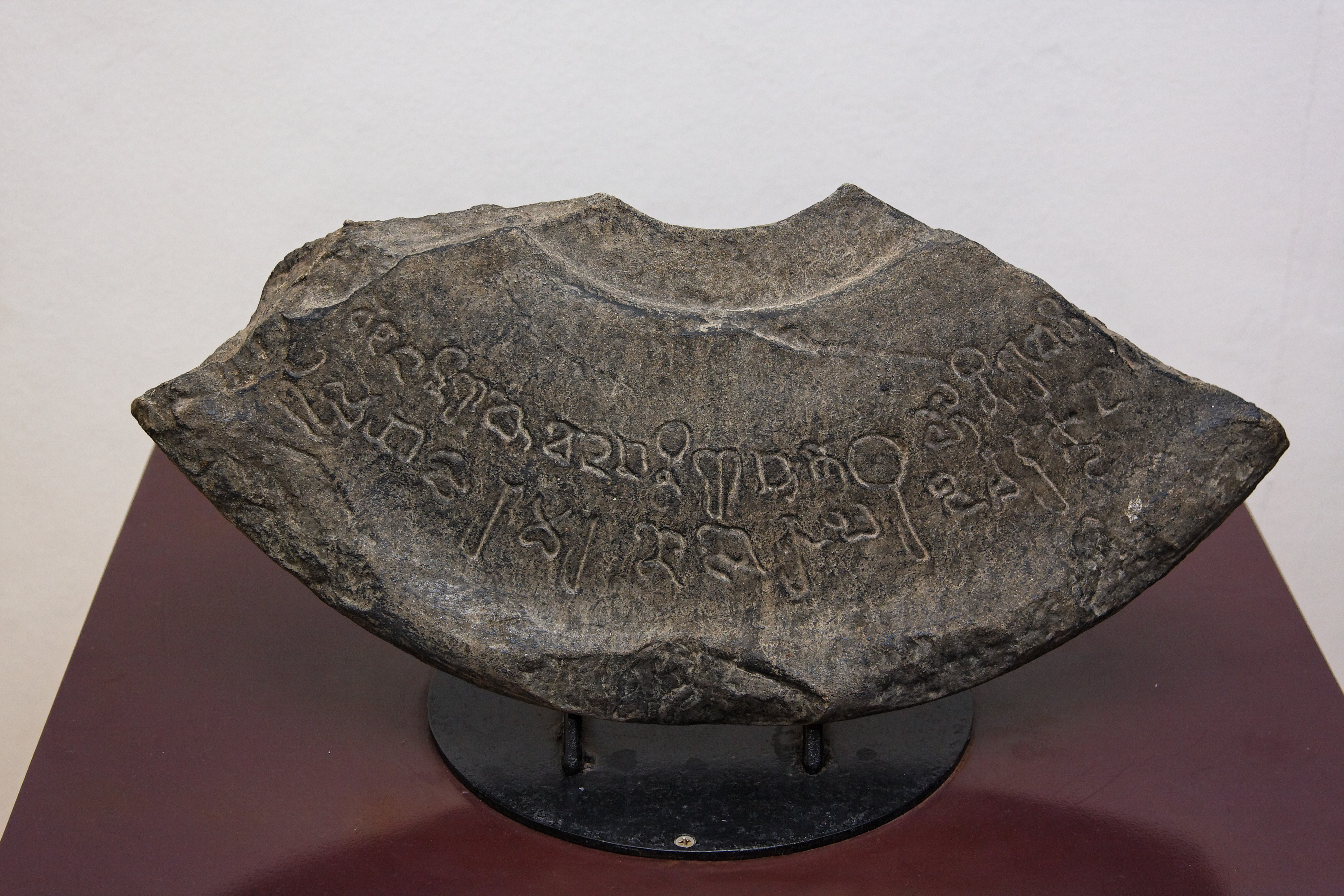 Museum in the Si Thep Historical Park, Si Thep District, Phetchabun Province, Thailand. Pali text using Pallava alphabet